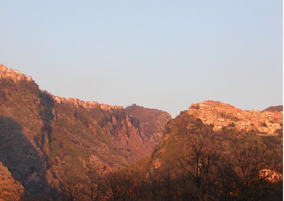 My ancestors in Calabria, Maiera' on the right is the village of my grand grand mother Maria Carmella Runco